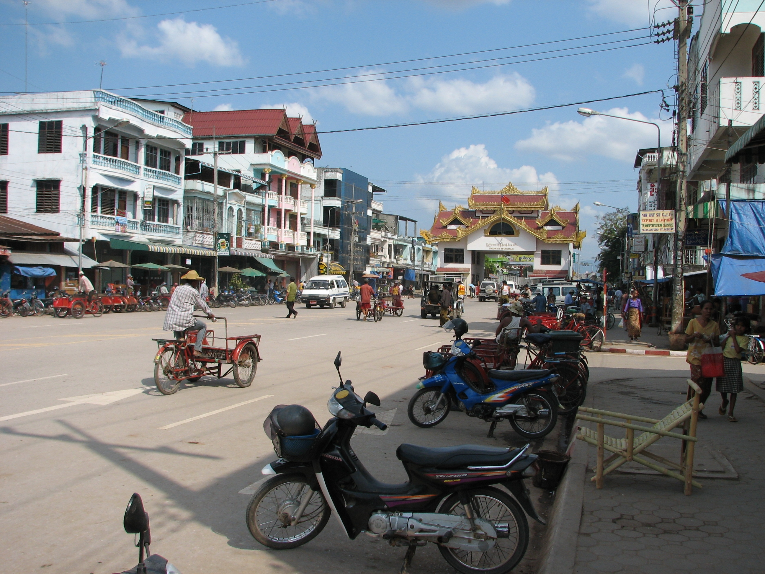 Photo taken in Myawaddy just after entry, looking back towards Mae Sot.